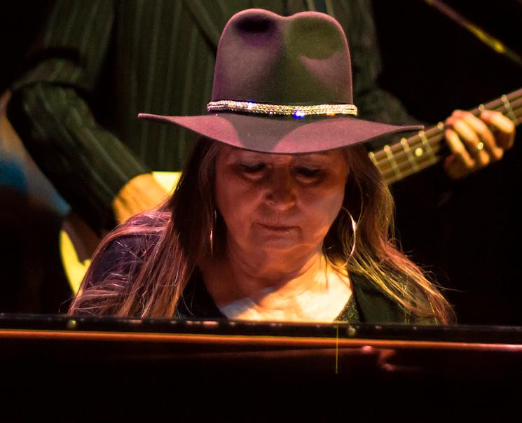 Bobbie Nelson, performing on the piano during Willie Nelson & Family concert at the 9:30 club in Washington D.C